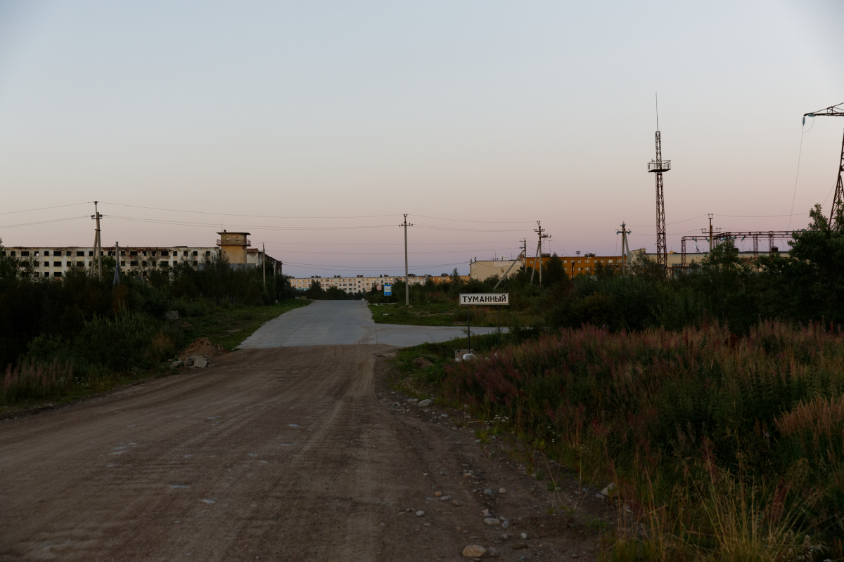 View of Tumannyy, taken in August 2016